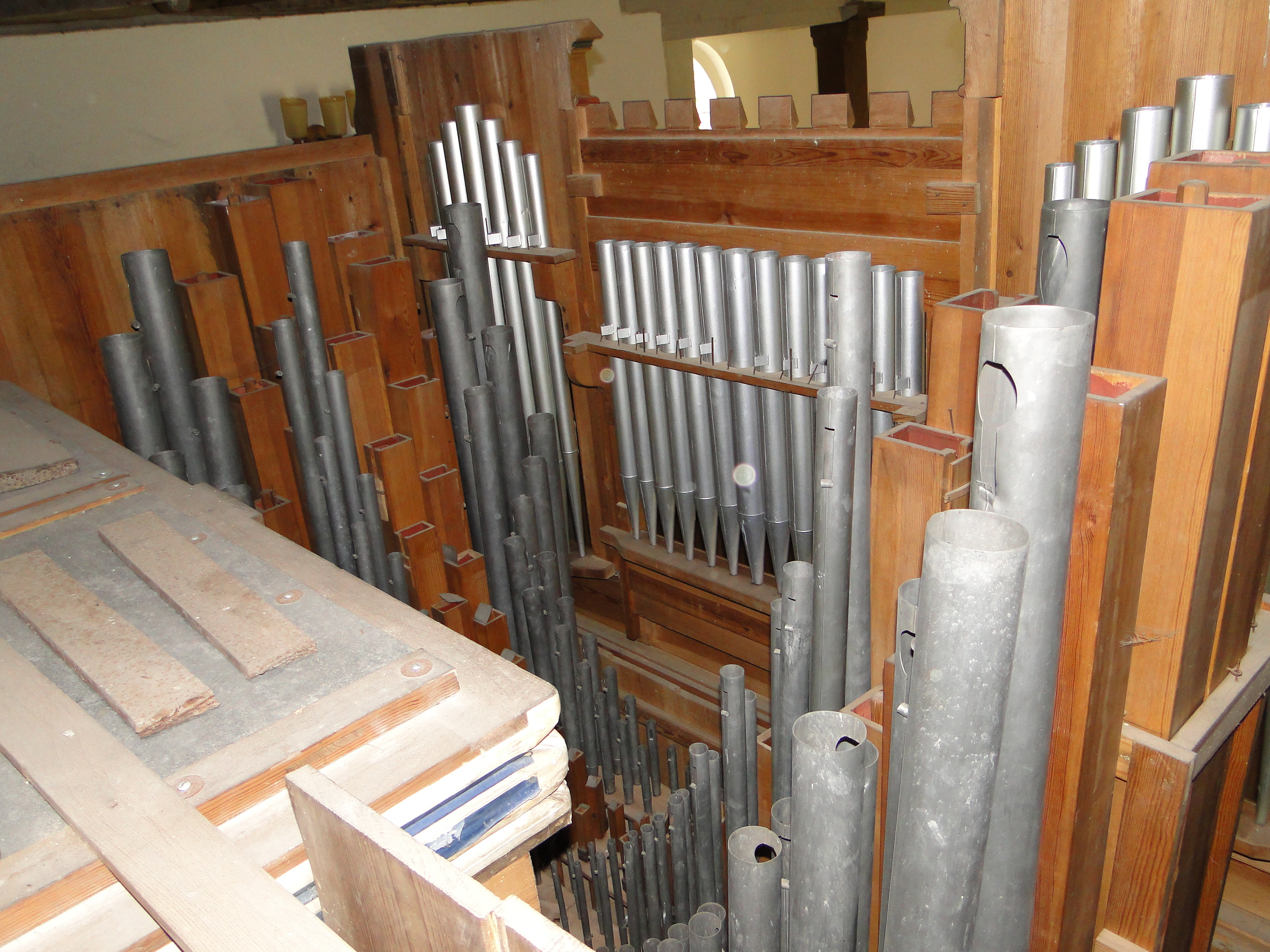 Church in Techentin, district Ludwigslust-Parchim, Mecklenburg-Vorpommern, Germany